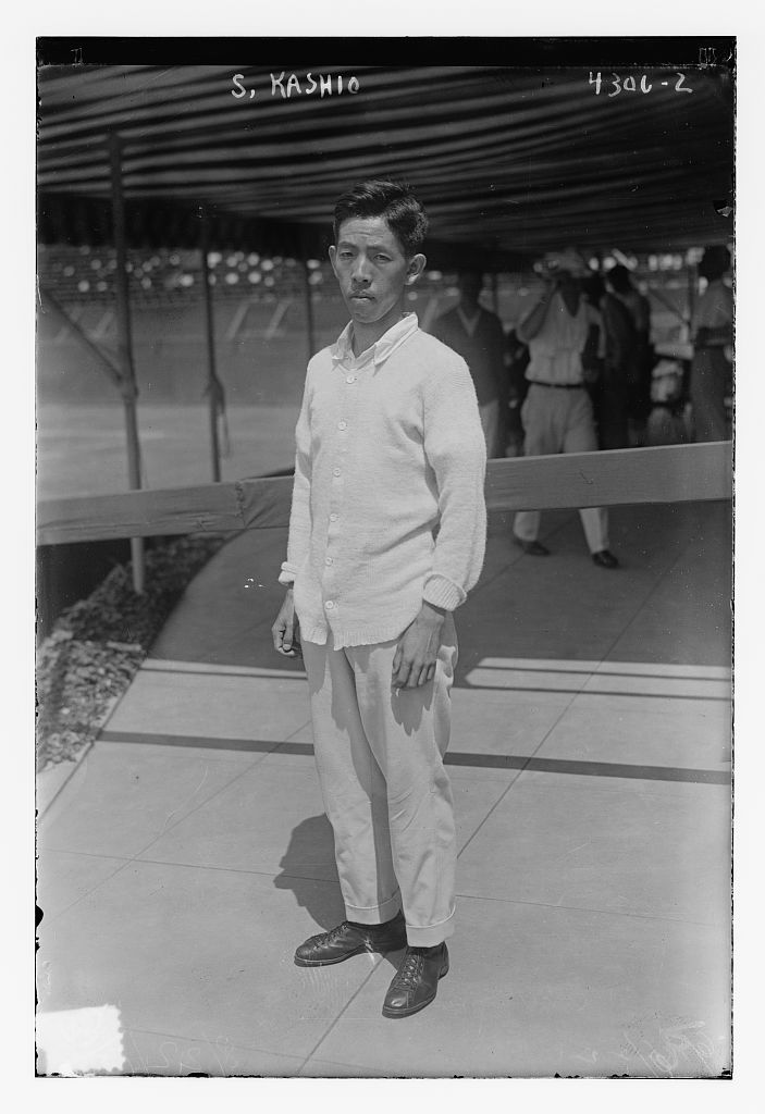 Seiichiro Kashio at the 1917 US Open